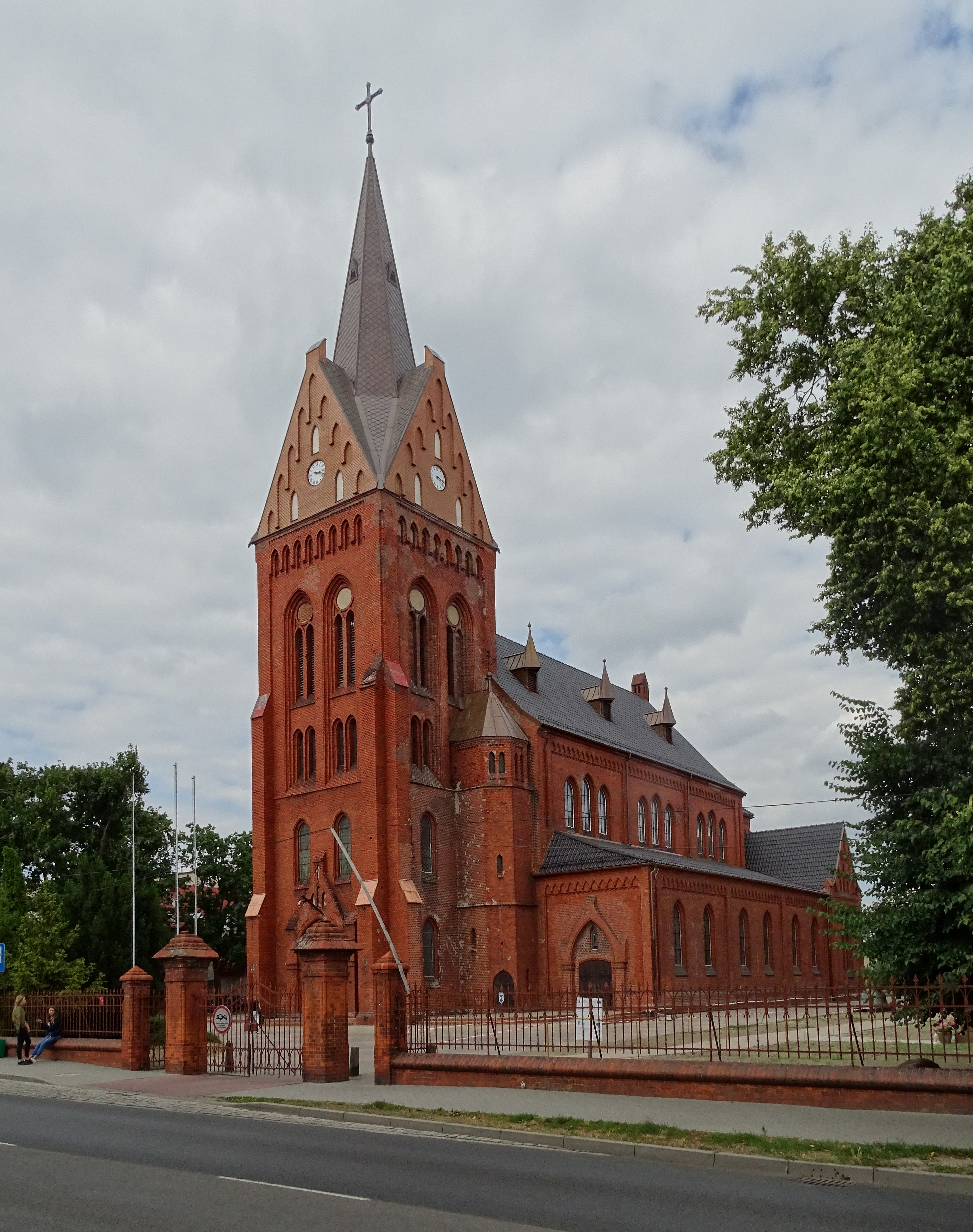 Nakło nad Notecią, Poland. Church of Saint Stanislaus, built 1886-1887.